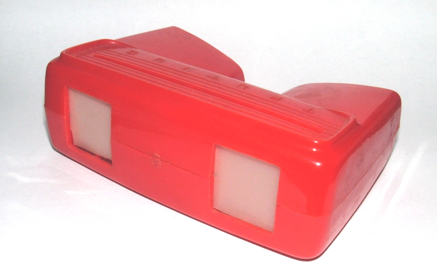 Tru-Vue early 60's cheap stereoviewer.